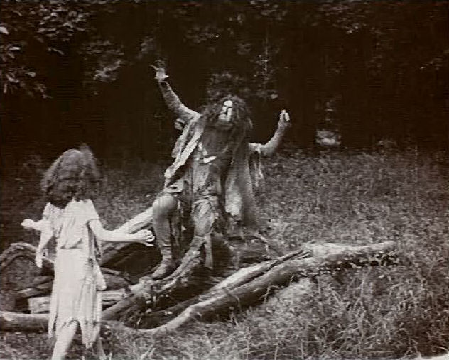 Screenshot from 'The Tempest' (1908) directed by Percy Stow